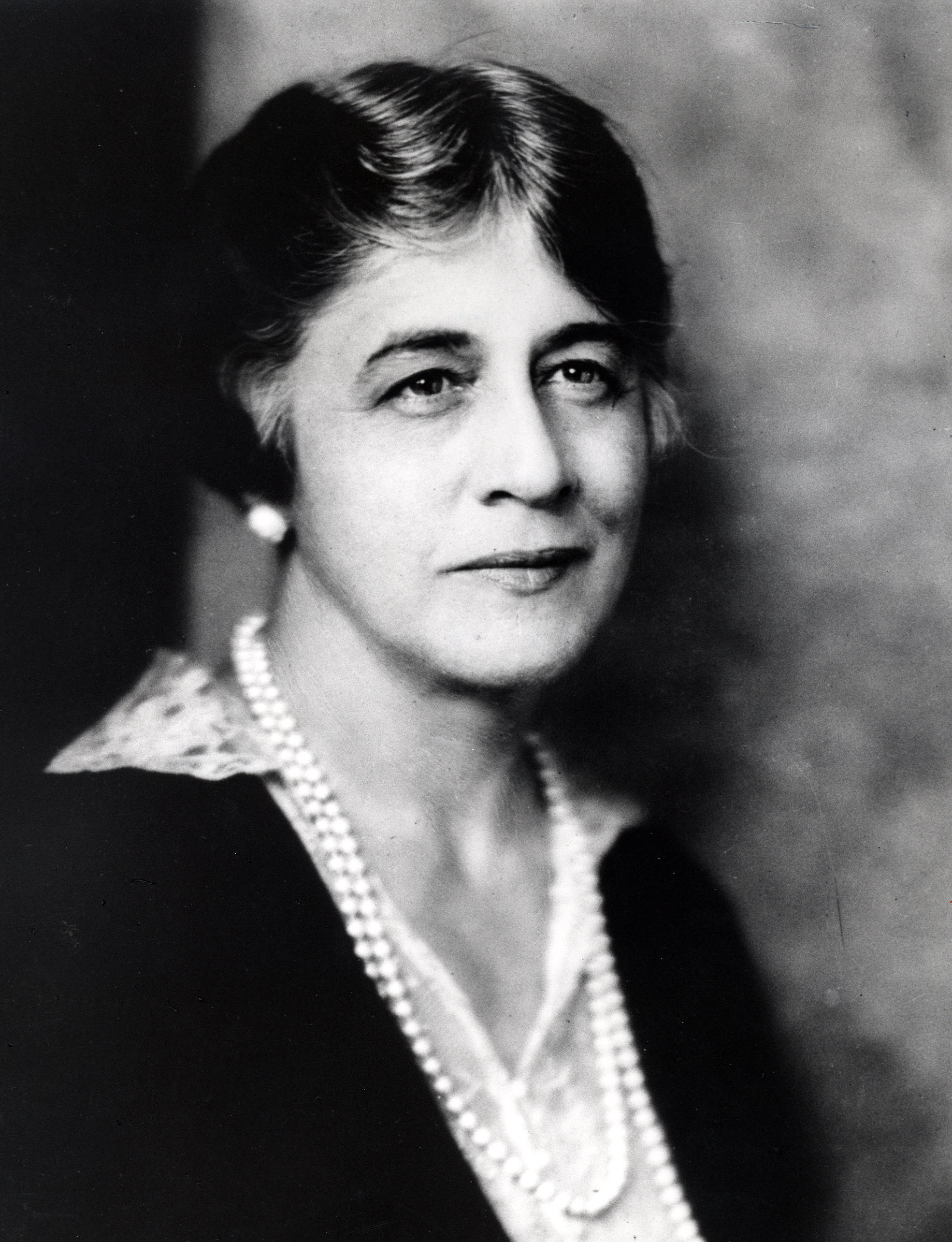 Congresswoman Ruth Bryan Owen of Florida